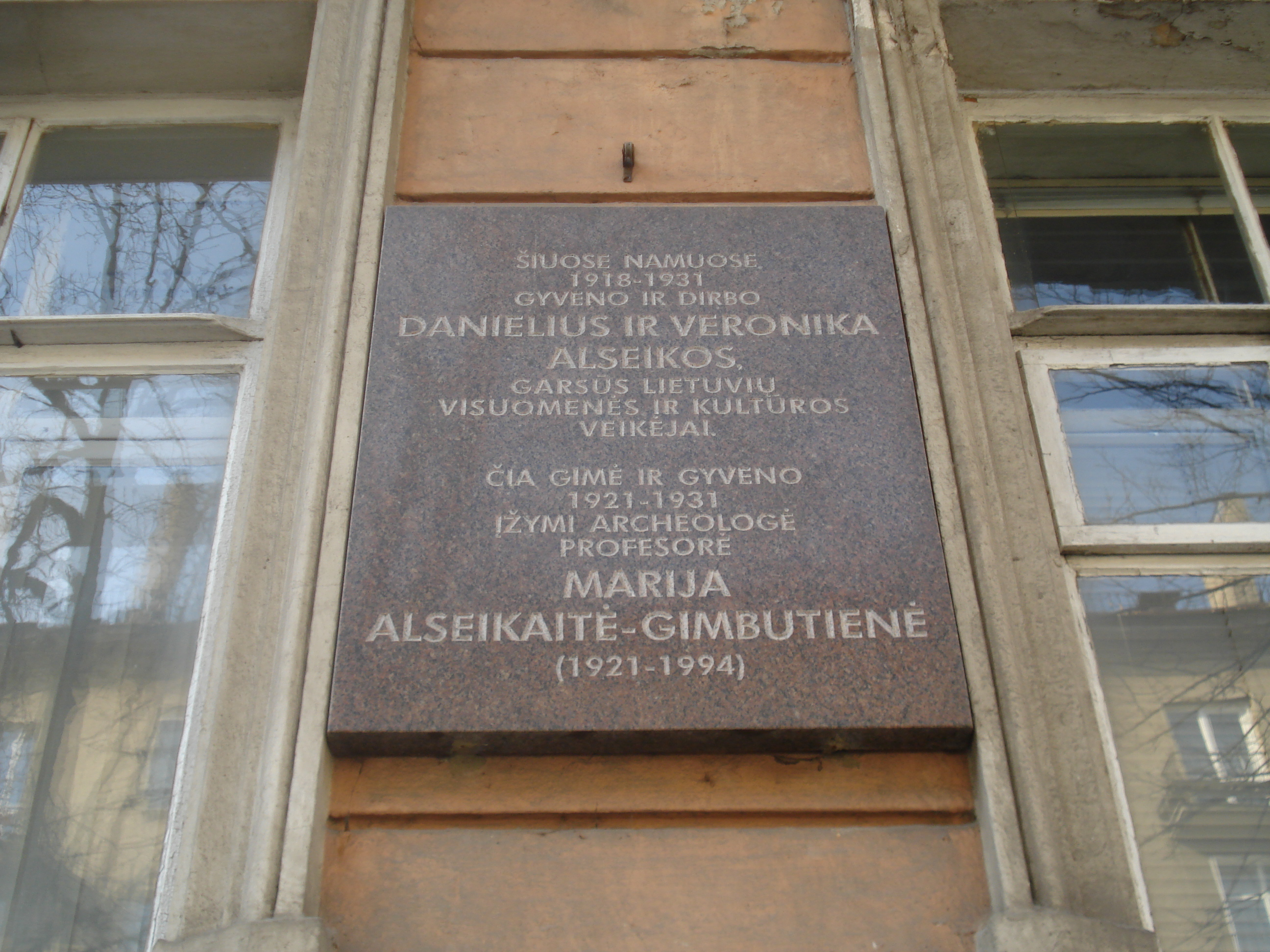 Tablet in memory of Marija Gimbutas and her parents on the house in Vilnius. Jogailos g. 11.